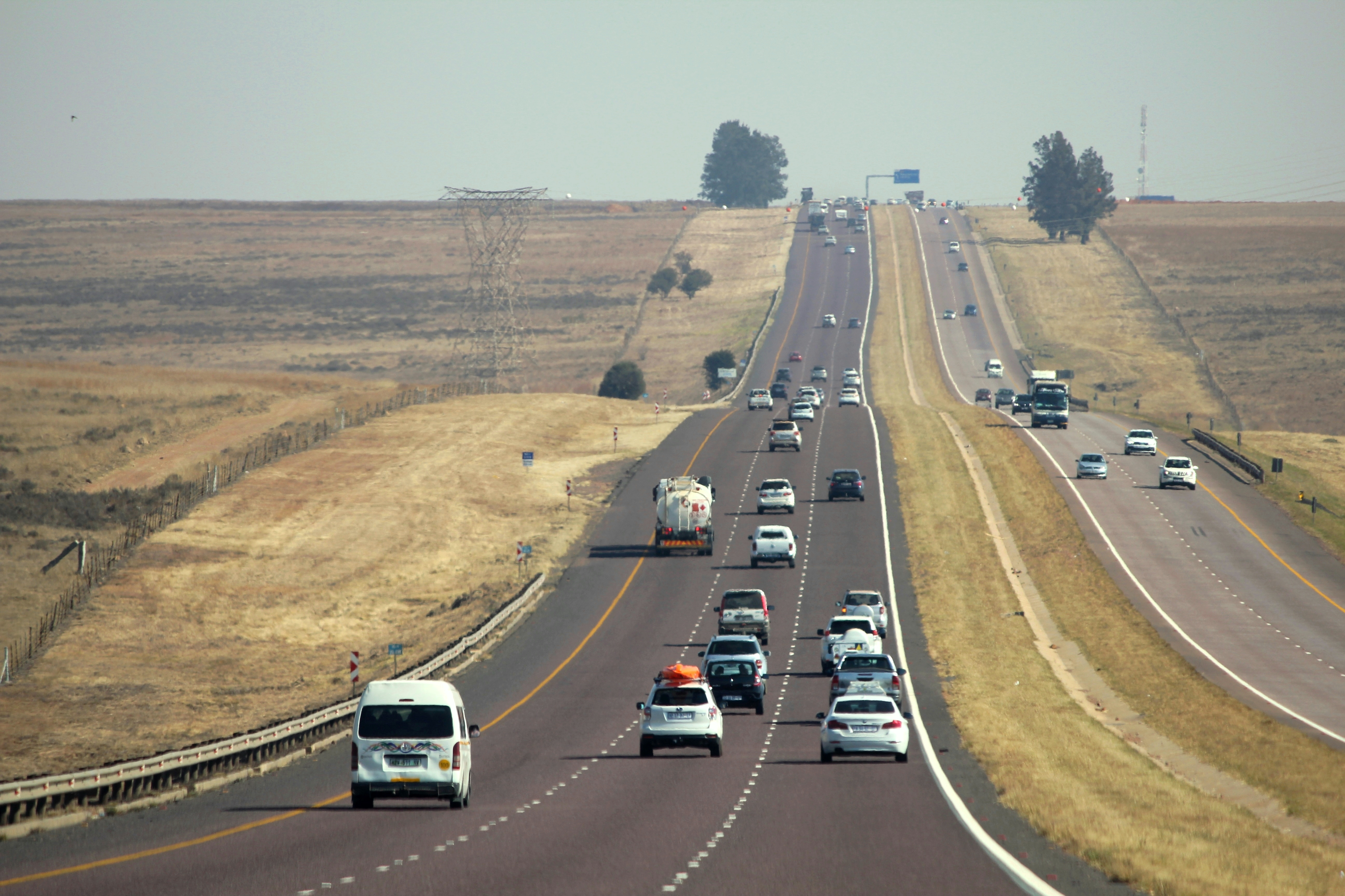 N4 freeway, looking west, near Middelburg Dam, Middelburg, Mpumalanga